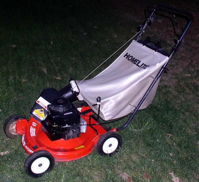 HomeliteJacobsen Lawn Mower